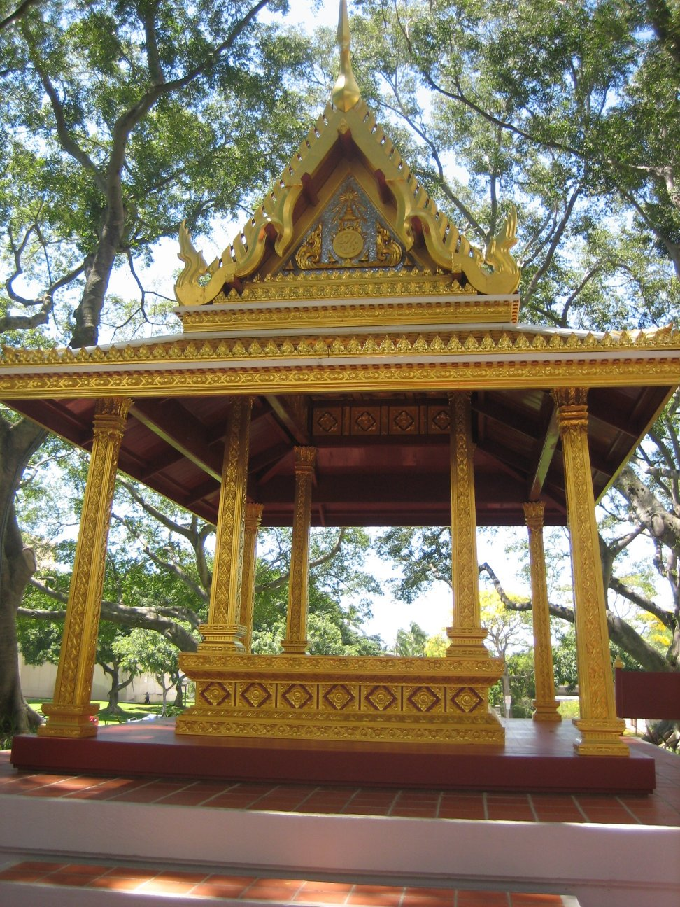 The Royal Sala Thai (pavilion), on campus of the University of Hawaii at Manoa.